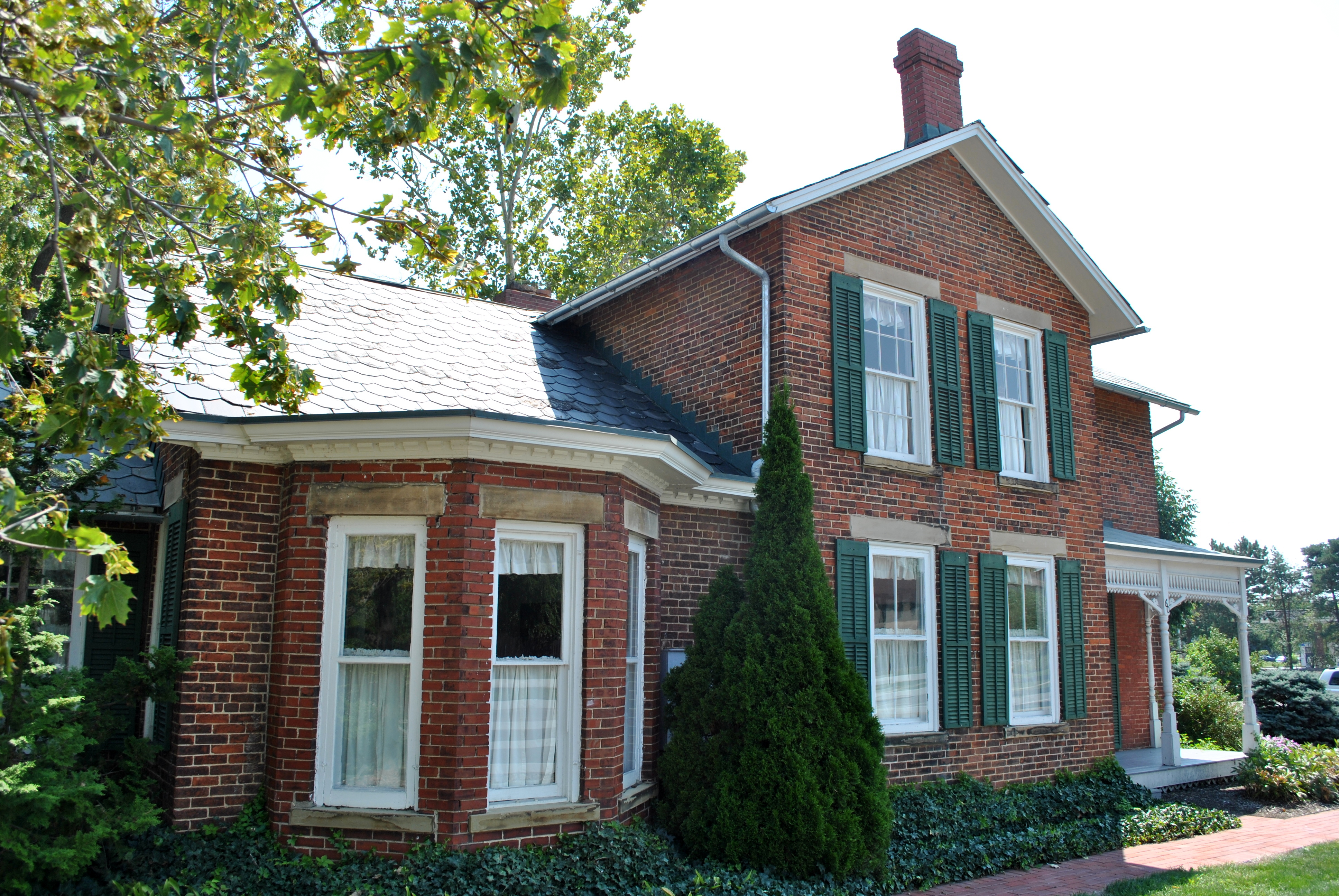 located in Westerville, Ohio and listed on the NRHP